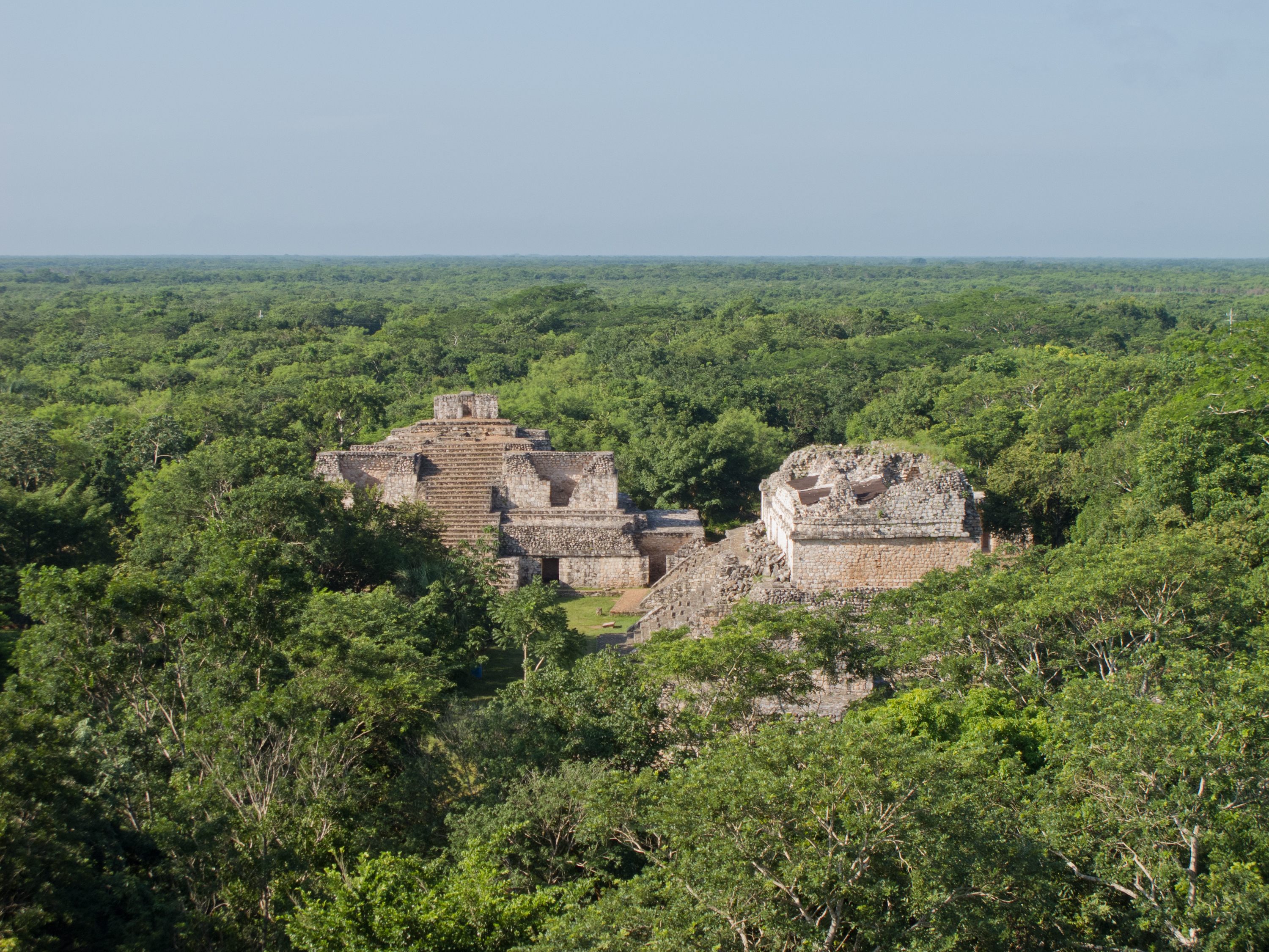 Ek' balam, Yucatán, Mexico.